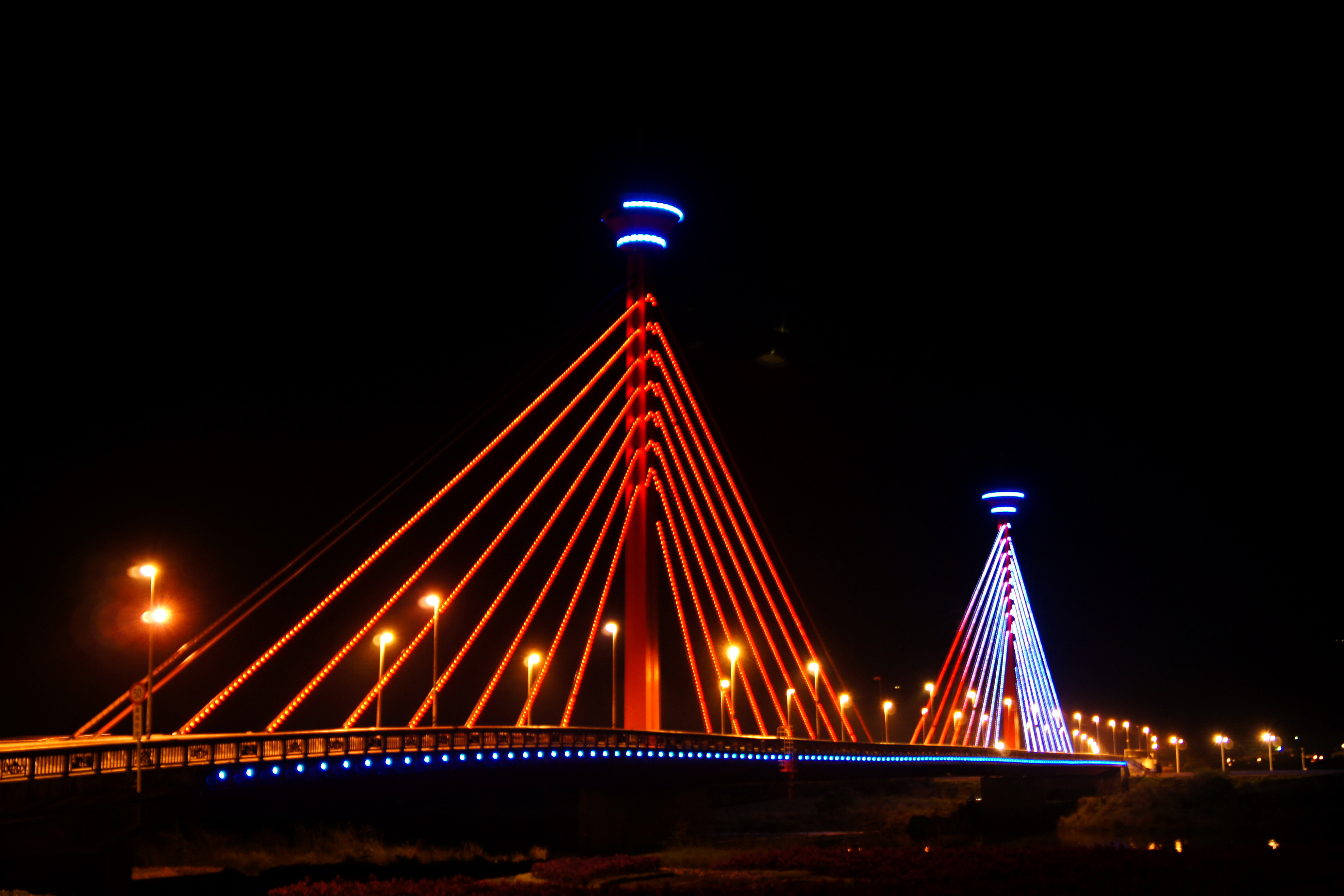 Xindong Bridge (Sindong Bridge), Miaoli, Taiwan.